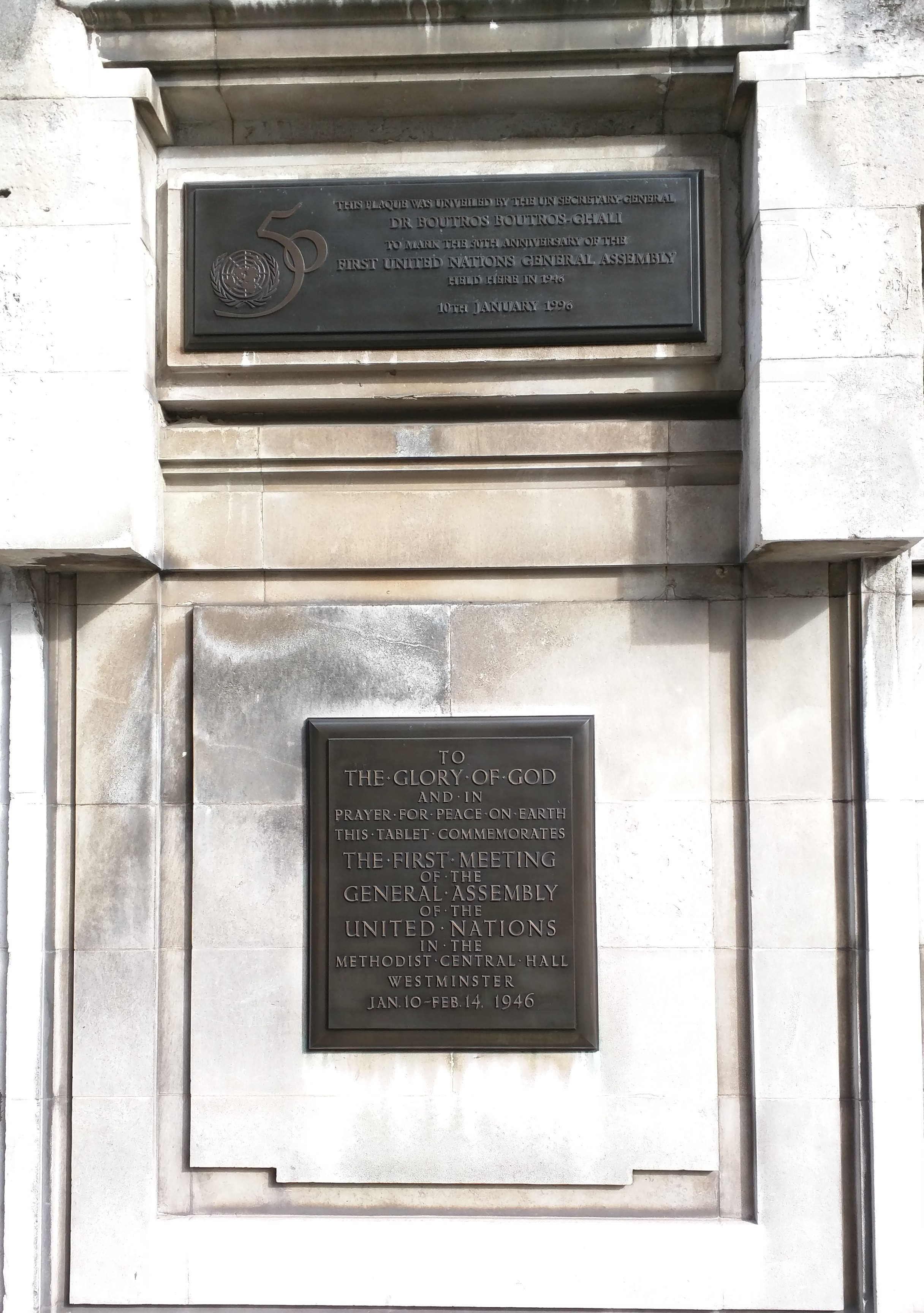 Plaques commemorating the first meeting of the United Nations in 1946